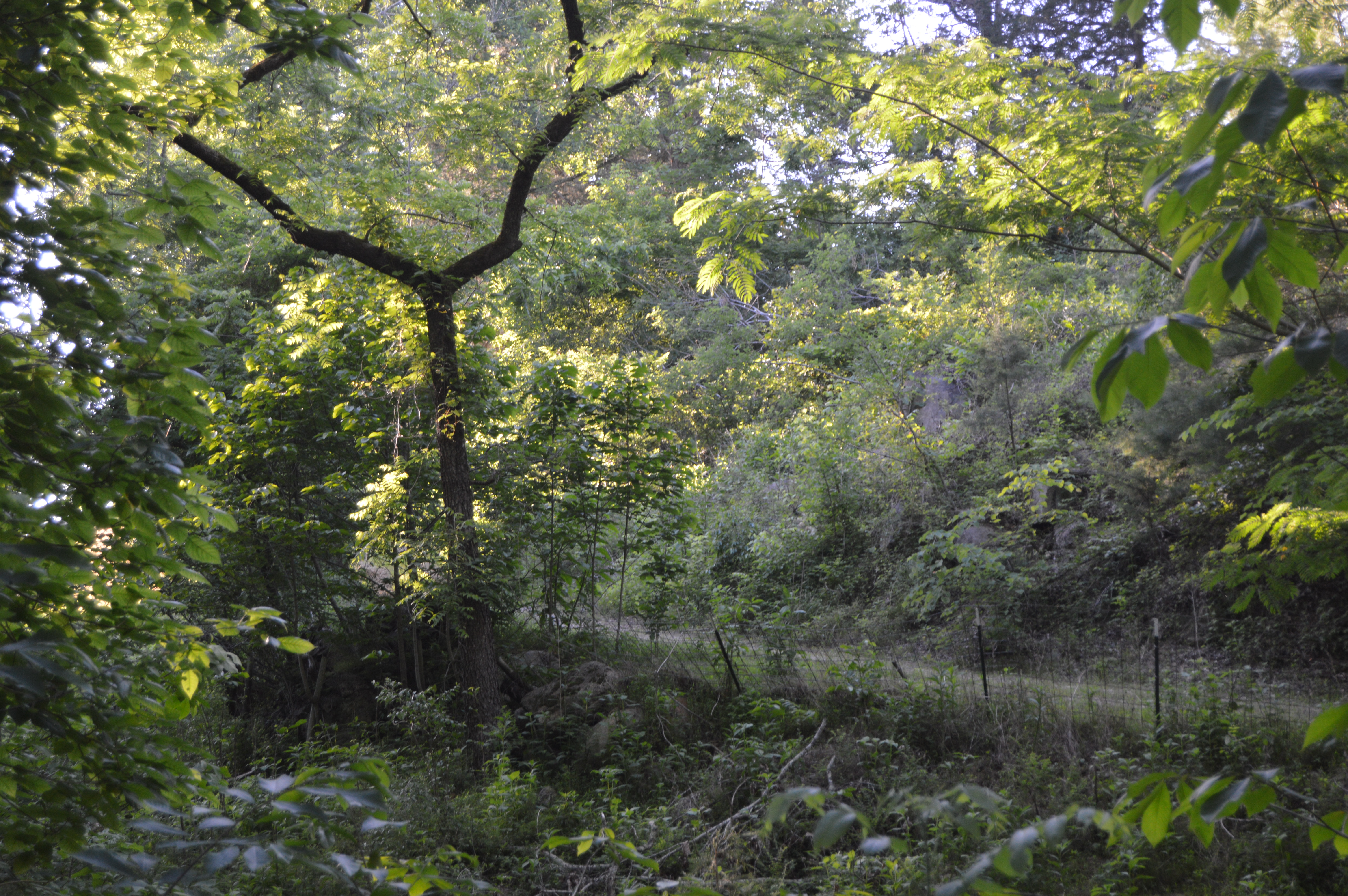 Driveway to the Red Hill Farm, located on Minors Branch Road southwest of Pedlar Mills in Amherst County, Virginia, United States. The farmstead is listed on the National Register of Historic Places.